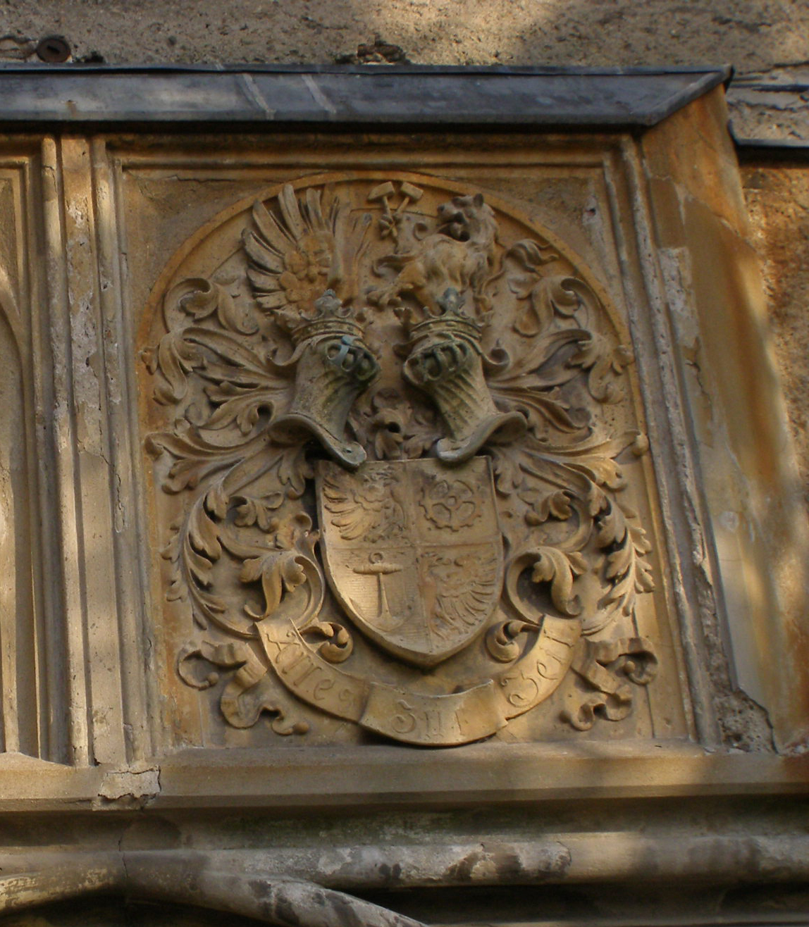 Coats of arms of the Gutmann industrial dynasty above the main portal of Tovačov castle. Motto: ALLES ZUR ZEIT.